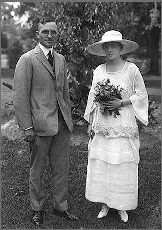 Wedding photo of Harry and Bess Truman, June 28, 1919. They are in the backyard of 219 N. Delaware, Independence, Missouri.